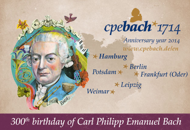 Key Visual for the anniversary year of CPE Bach 2014.